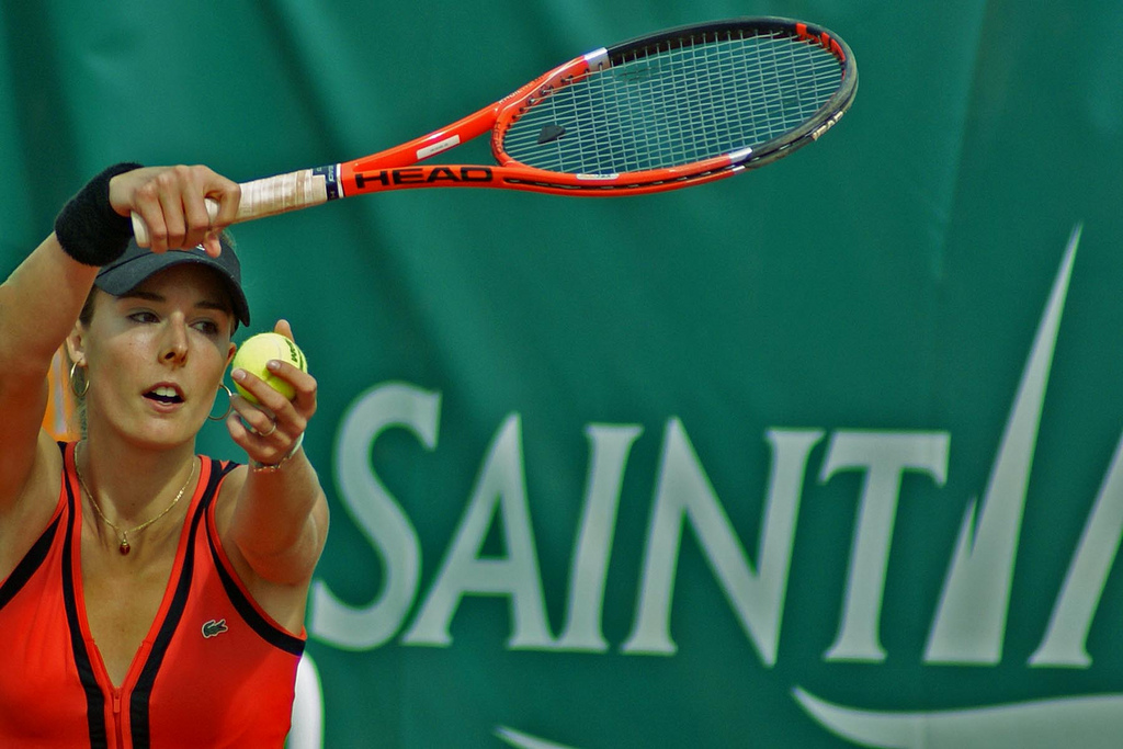 Alize Cornet